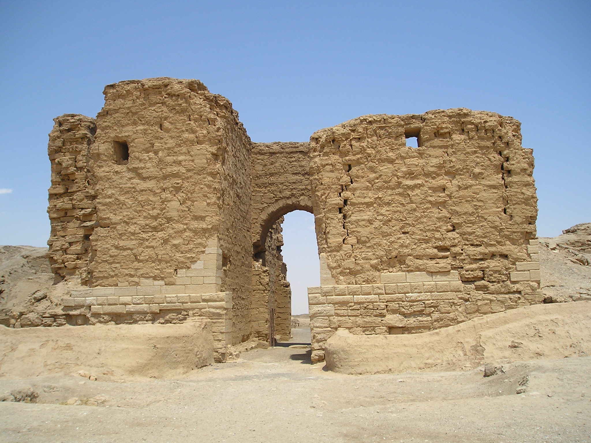 Dura Europos, Syria - Palmyra Gate